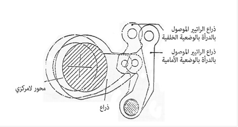 Dobby device, it is used in the looms